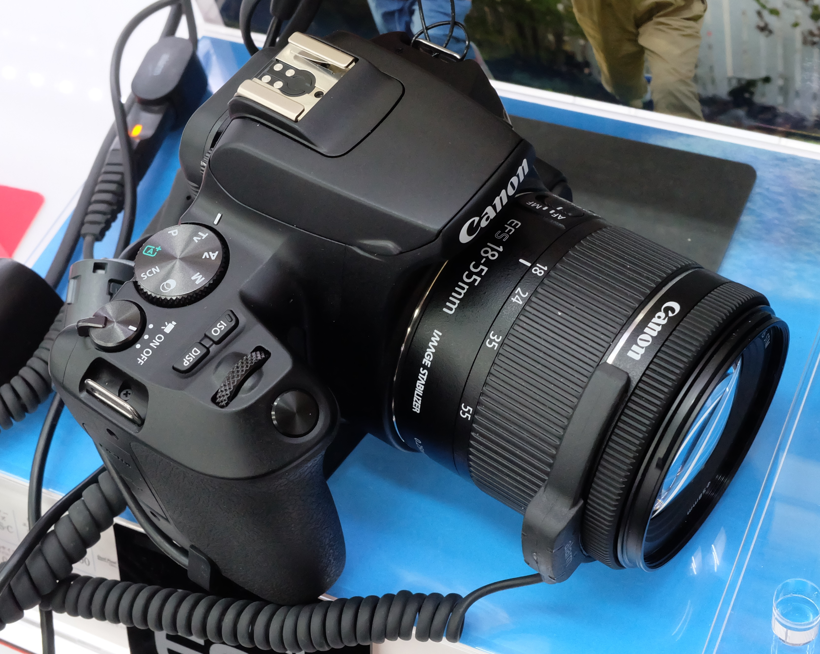 Canon EOS Kiss X10 (photo taken at Yodobashi Camera)